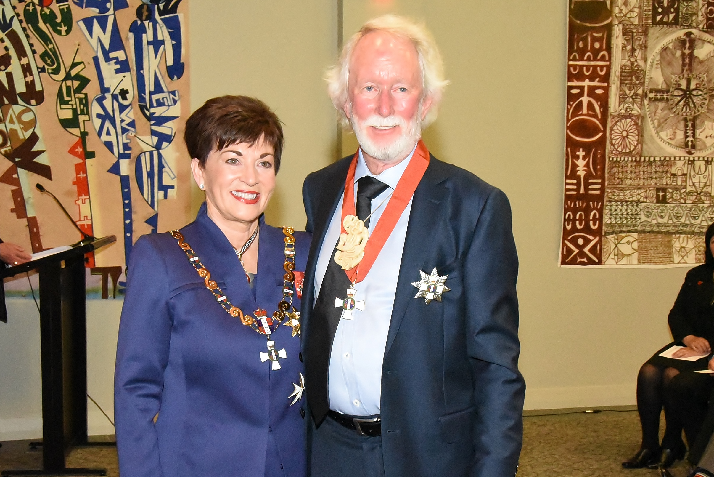 Graeme Dingle, after his investiture as KNZM, for services to youth, by the governor-general, Dame Patsy Reddy, on 17 August 2017